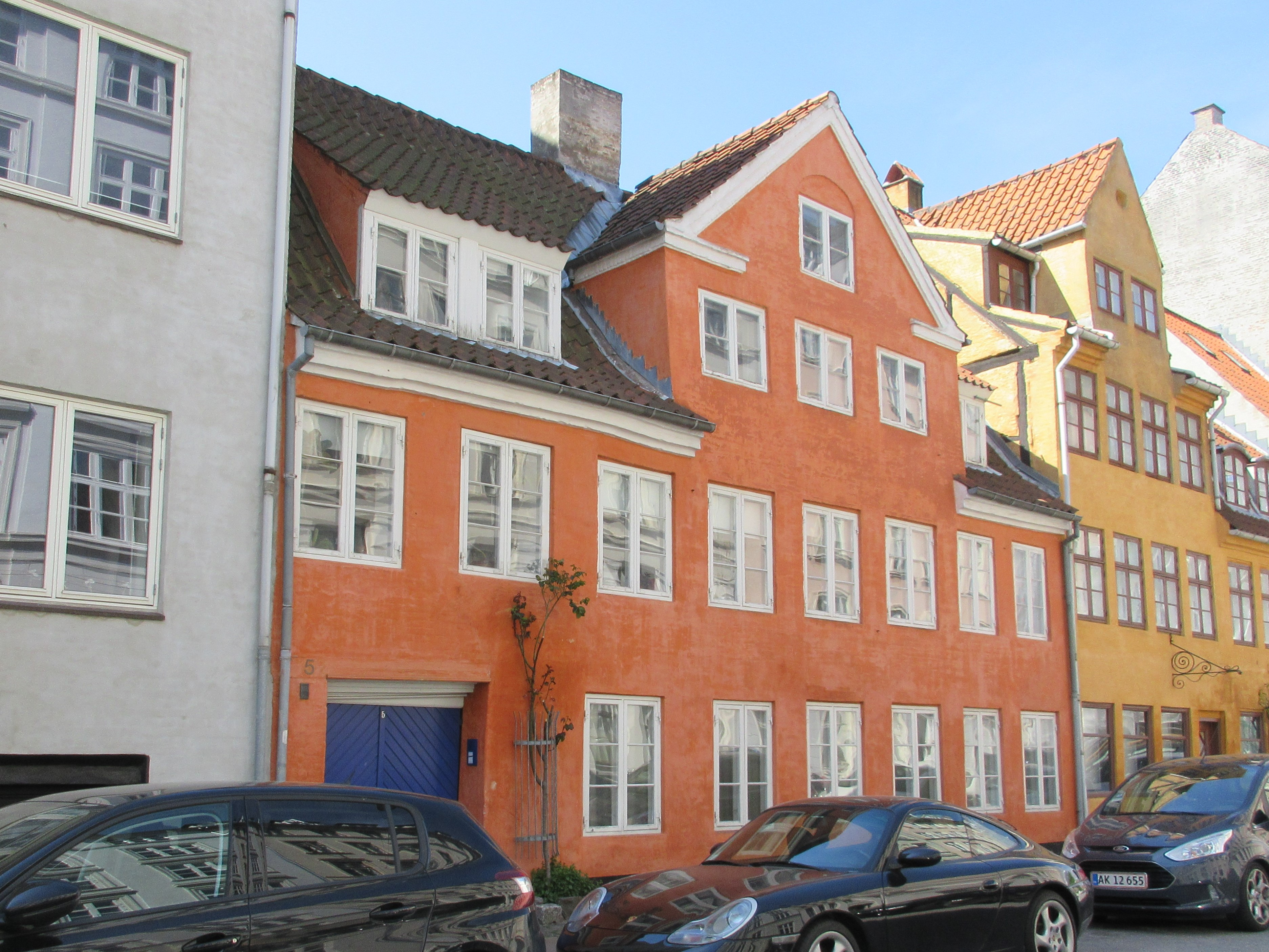 Olfert Fischers Gade 5 in Copenhagen, Denmark